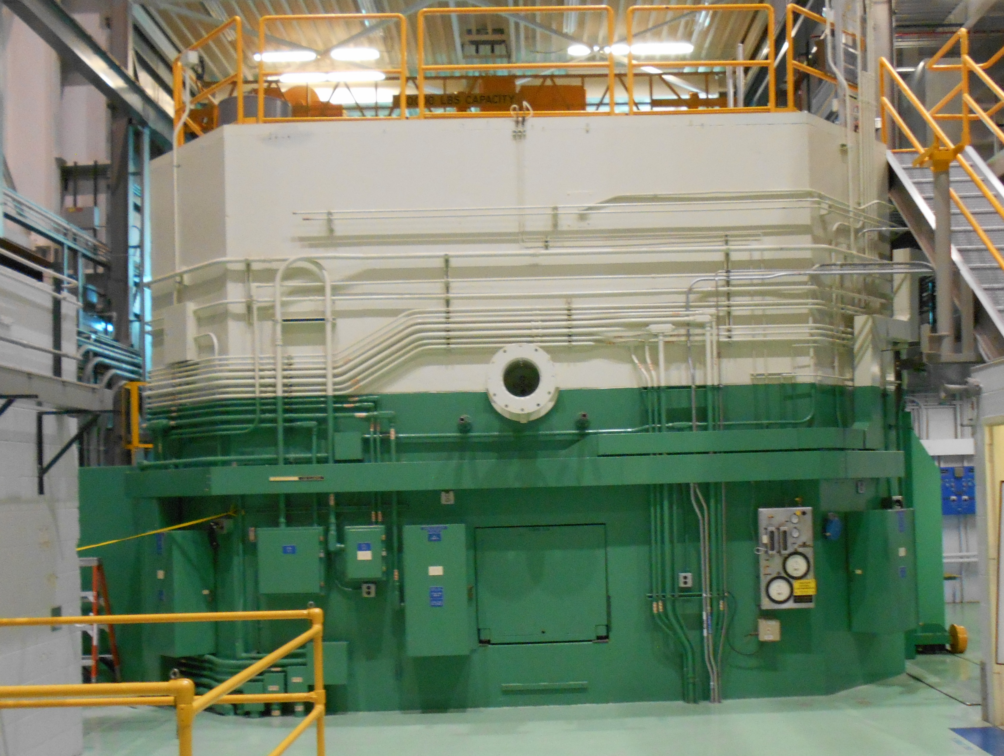 TREAT - Transient Reactor Test Facility - Reactor South Face A US DOE Test Nuclear Reactor located at Idaho National Labs.